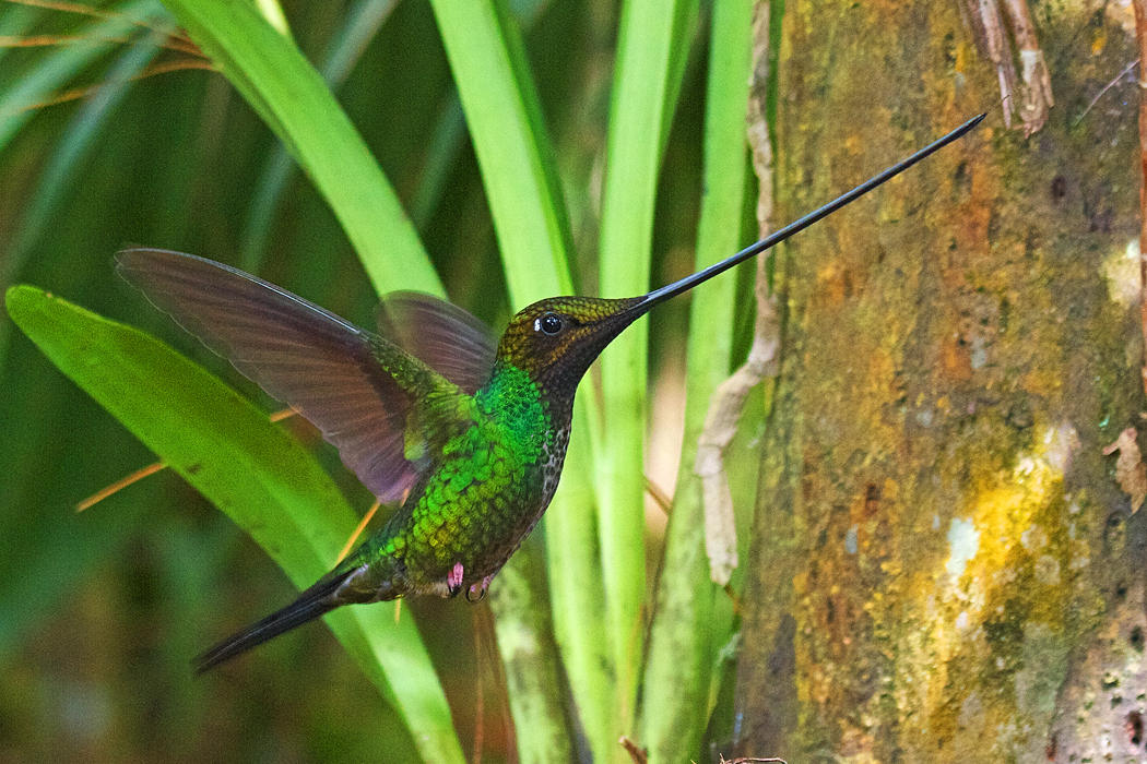 Sword-billed Hummingbird photo taken at Guango Lodge (east slope), Ecuador.